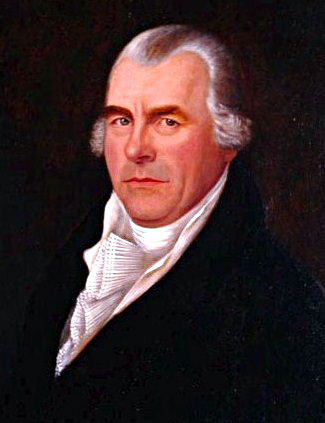 Elijah Brigham, US Representative from Massachusetts